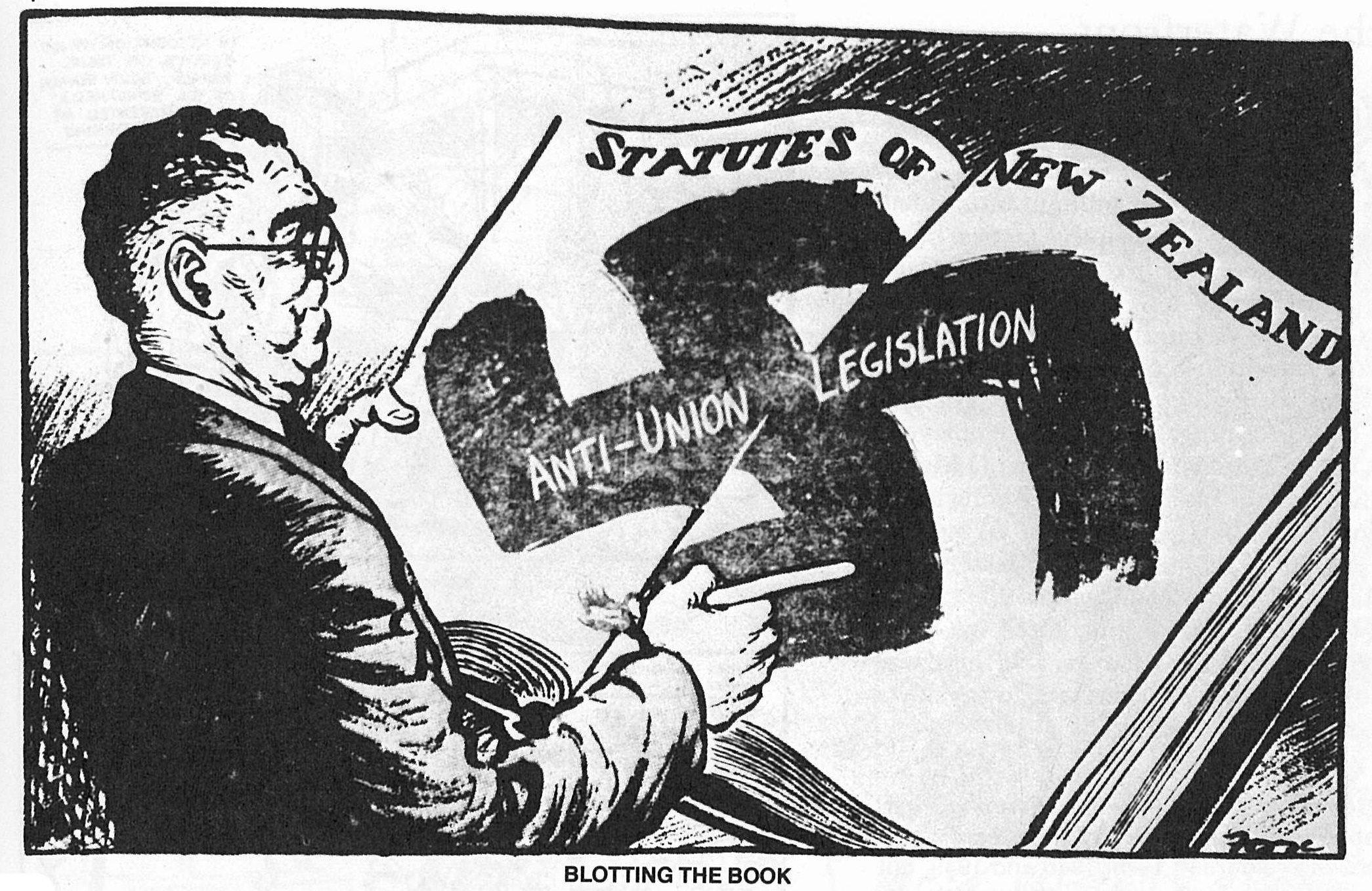 Blotting the book.